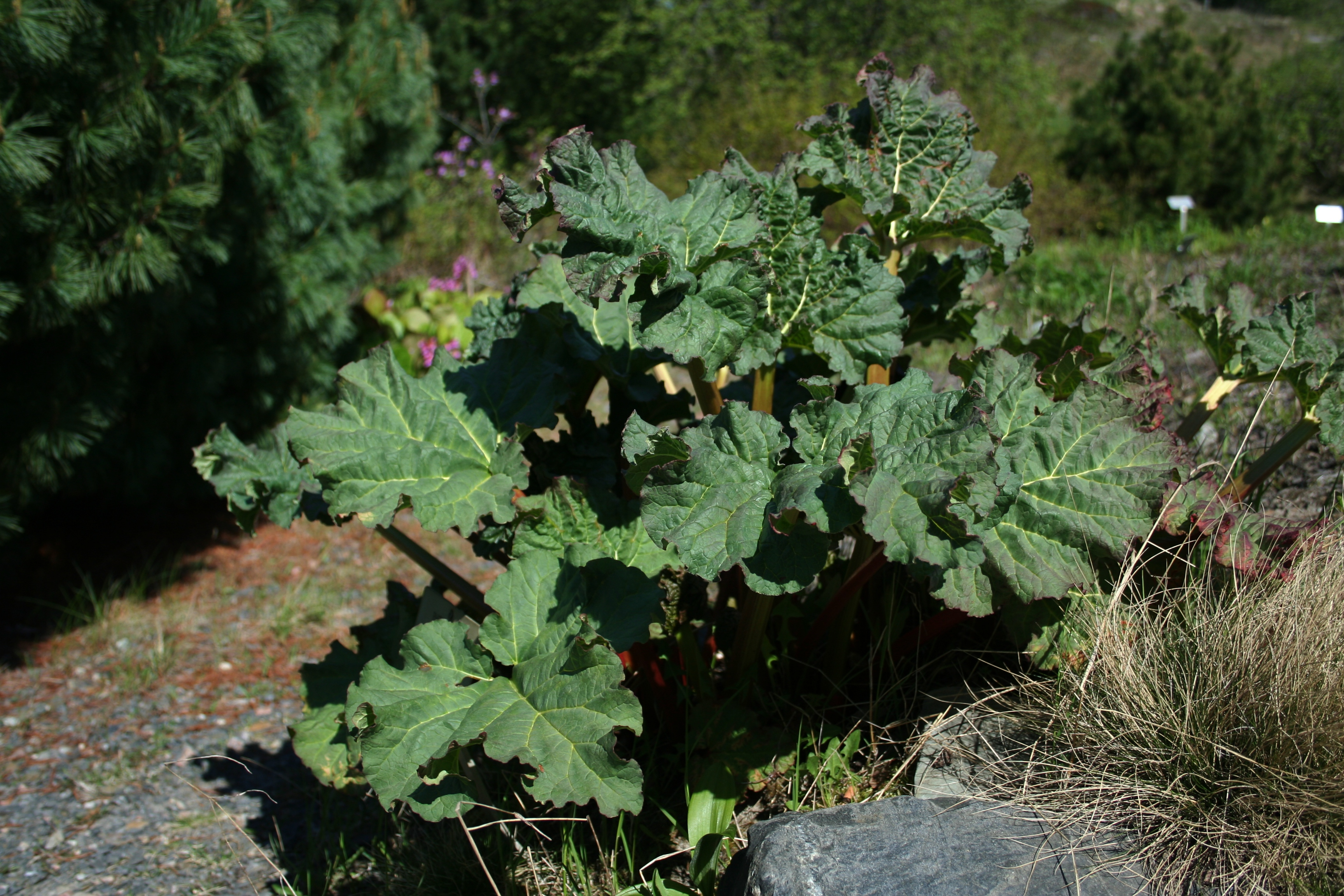 Rheum australe. Oulu University Botanical Gardens, Finland.